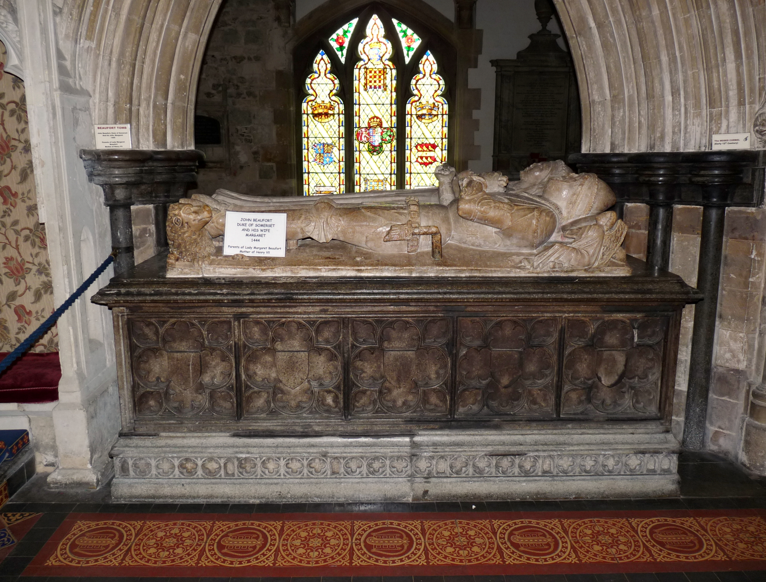 Tomb of John Beaufort, 1st Duke of Somerset and his wife Margaret, in Wimborne Minster, Dorset. He married Margaret Beauchamp (c. 1410 – before 3 June 1482) daughter of Sir John Beauchamp, de jure 3rd Baron Beauchamp of Bletsoe, and his second wife, Edith Stourton. Arms of Beauchamp of Bletsoe: Gules, a fess between six martlets or.